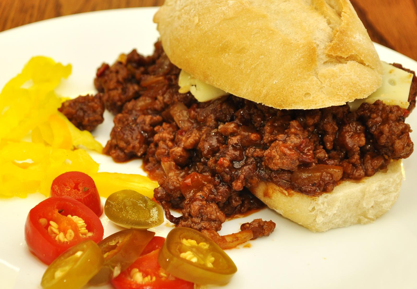 Mmm... sloppy joe with pickled peppers